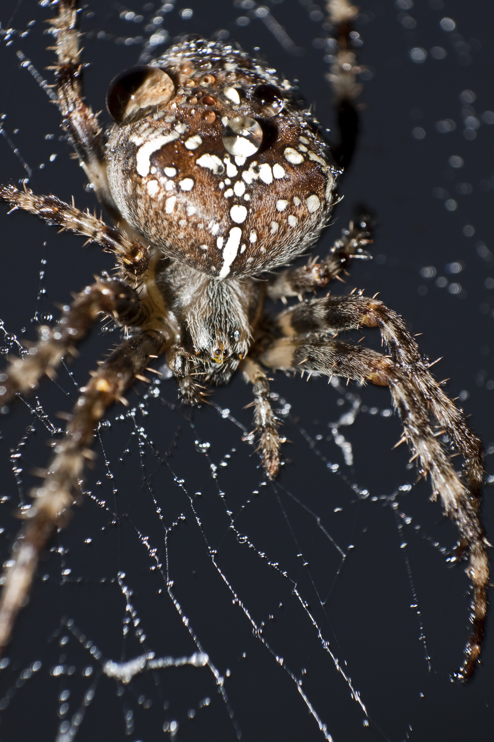 A female European garden spider (Araneus diadematus) on it's web with traces of dew on an autumn morning in the UK.